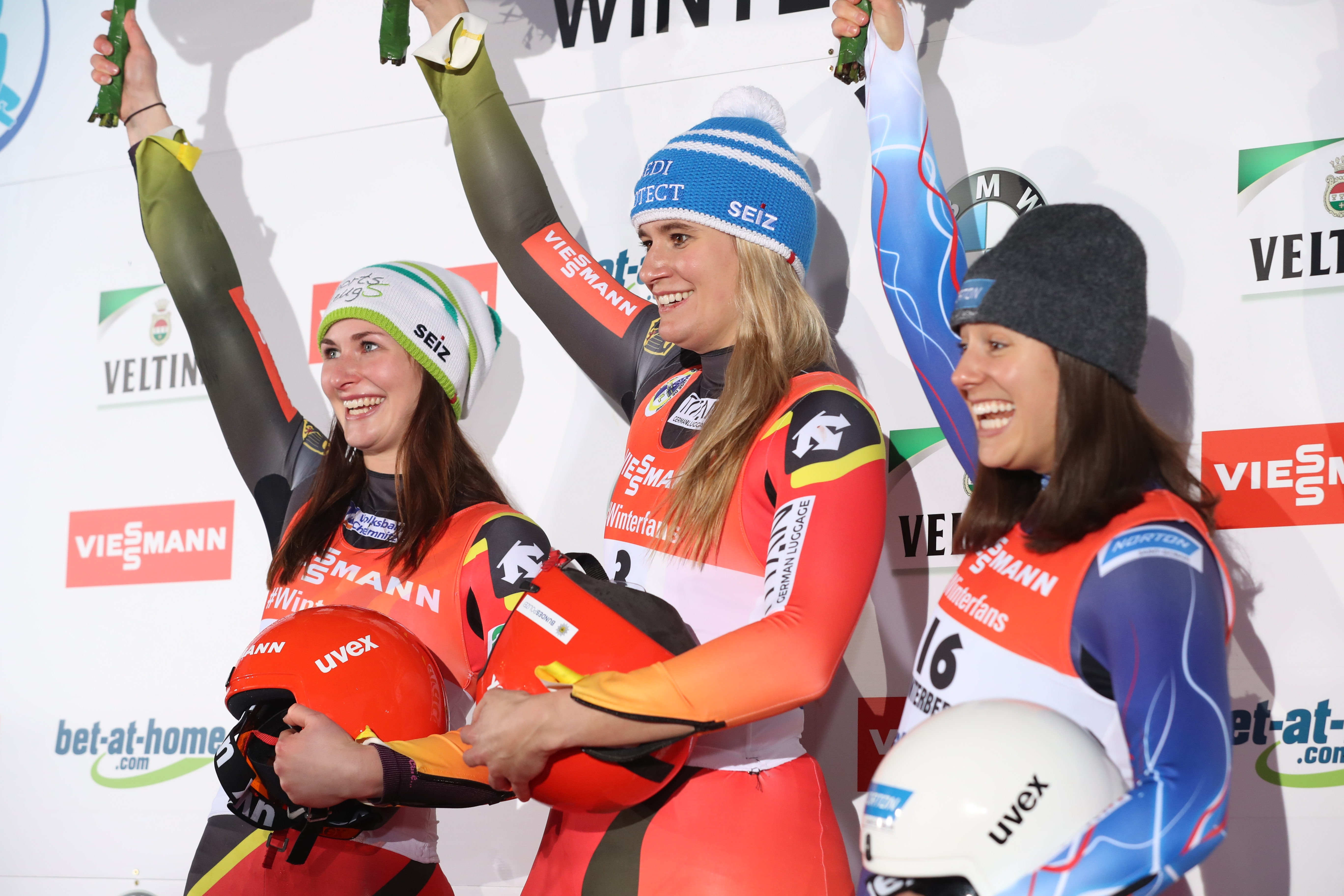 Women's race at the FIL World Luge Championships 2019 in Winterberg